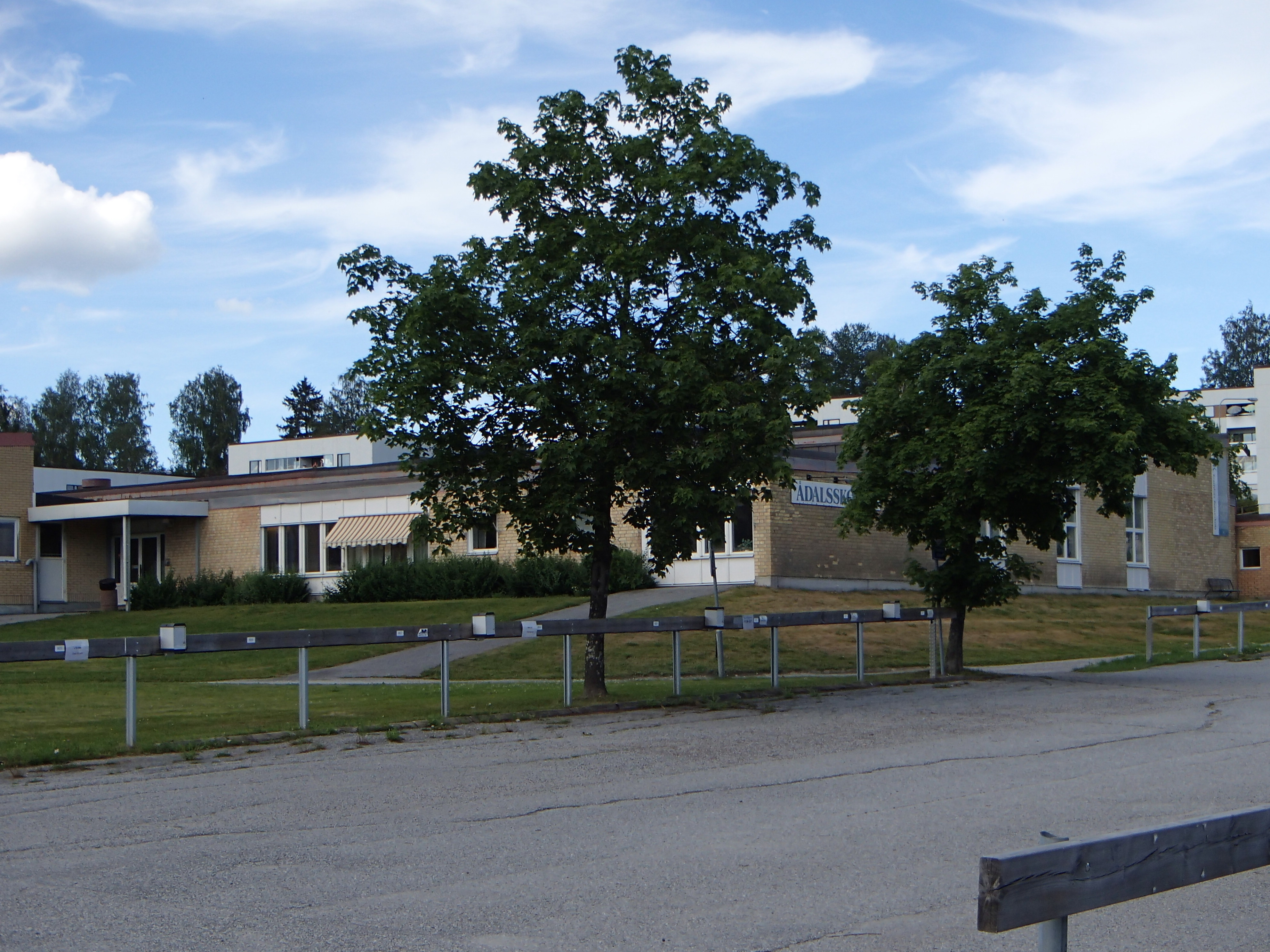 The gymnasium (school) "Ådalsskolan" in Kramfors, Sweden, viewed from south